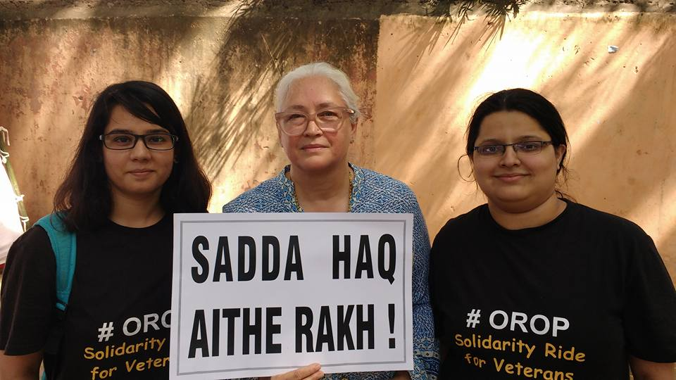 OROP Protest at JM